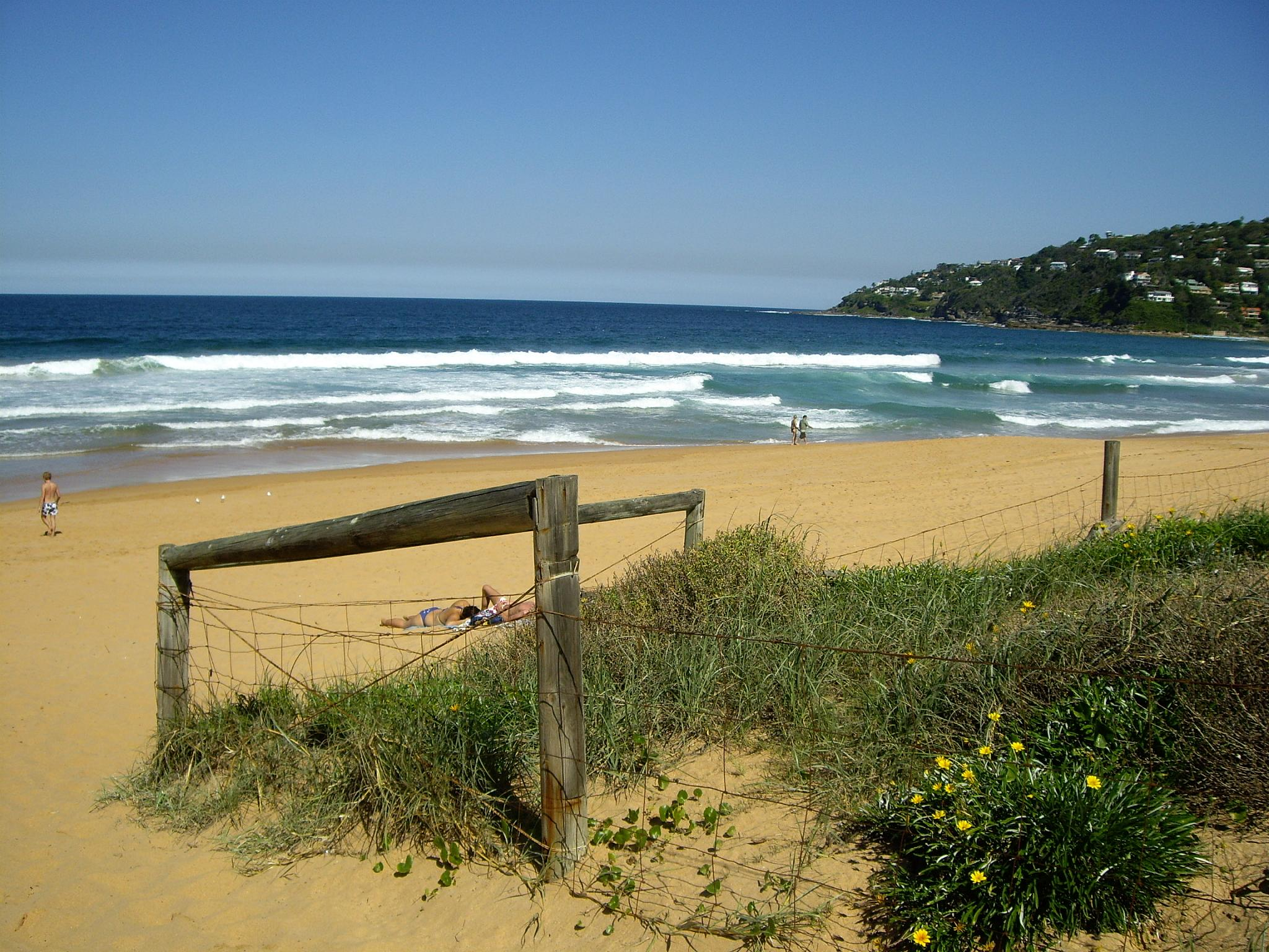 Plam Beach, Australia also known as Summer Bay, the sertting of Network Seven's soap opera Home and Away